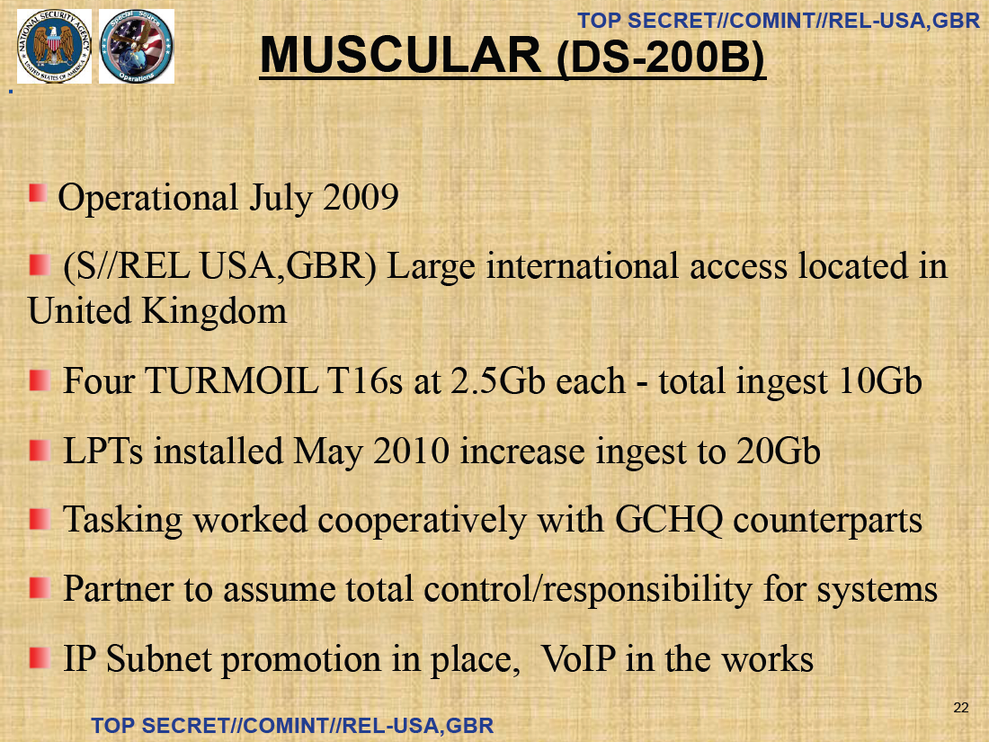 Slide from NSA presentation about the MUSCULAR program.